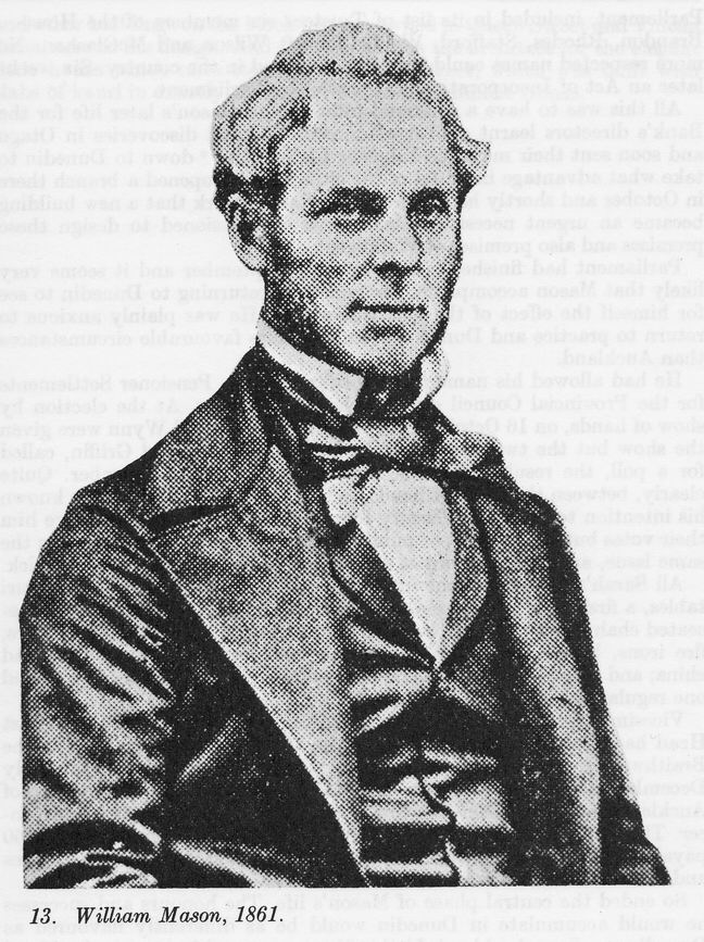 Photo of Watercolour, Dunedin Post Office.